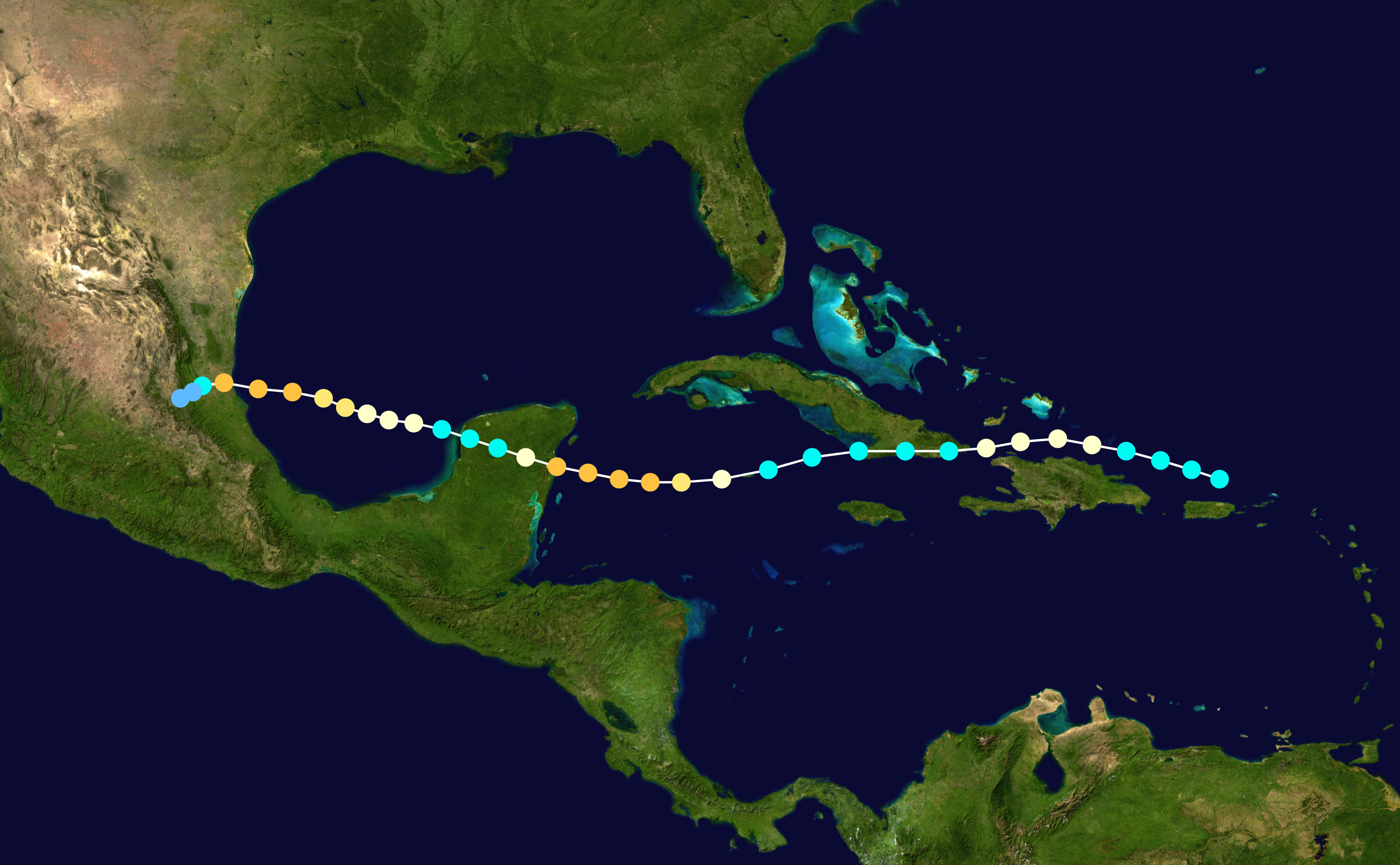 Track map of Hurricane Hilda of the 1955 Atlantic hurricane season. The points show the location of the storm at 6-hour intervals. The colour represents the storm's maximum sustained wind speeds as classified in the Saffir–Simpson hurricane wind scale (see below), and the shape of the data points represent the nature of the storm, according to the legend below. Saffir–Simpson hurricane wind scale Tropical depression≤38 mph≤62 km/h Category 3111–129 mph178–208 km/h Tropical storm39–73 mph63–118 km/h Category 4130–156 mph209–251 km/h Category 174–95 mph119–153 km/h Category 5≥157 mph≥252 km/h Category 296–110 mph154–177 km/h Unknown Storm typeTropical cycloneSubtropical cycloneExtratropical cyclone / Remnant low / Tropical disturbance